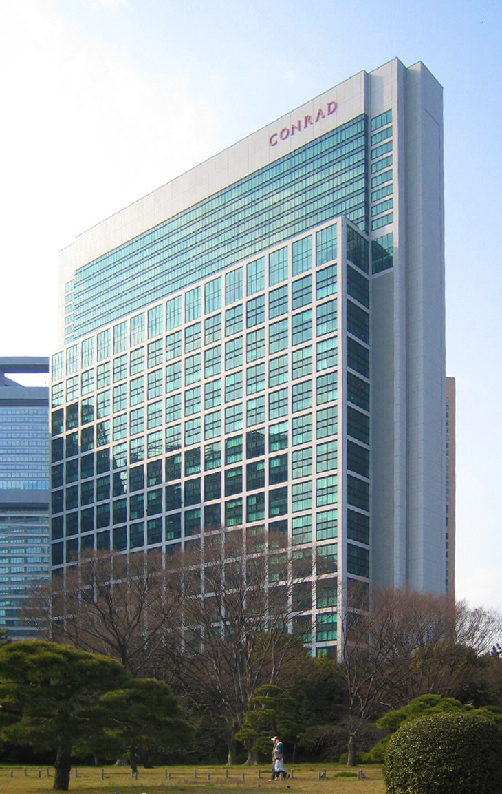 Photograph of Conrad Tokyo in Shiodome district, Minato-ku, Tokyo, Japan, taken on 22 March 2007 by original uploader.コンラッド東京外観、オリジナルファイルの投稿者が2007年3月21日に浜離宮恩賜庭園で撮影